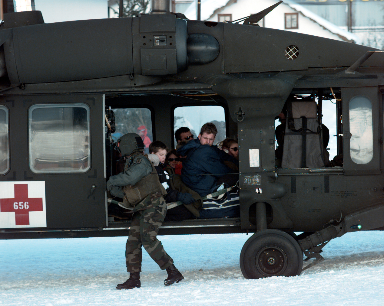 Galtür 1999. U.S. Army Sgt. Lalita Mathis checks the door of a UH-60 Blackhawk helicopter as the crew prepares to evacuate tourists stranded by an avalanche in Galtur, Austria, on Feb. 25, 1999. Blackhawks from the 5th Battalion, 158th Aviation Regiment were sent to Austria to help transport avalanche victims and stranded tourists to safety.